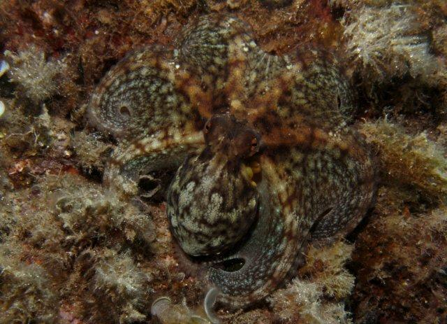 octopus vulgaris